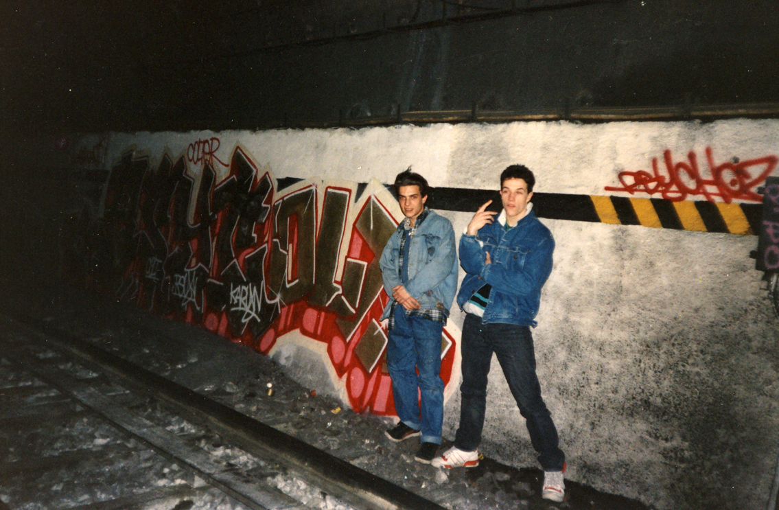 psy & colt